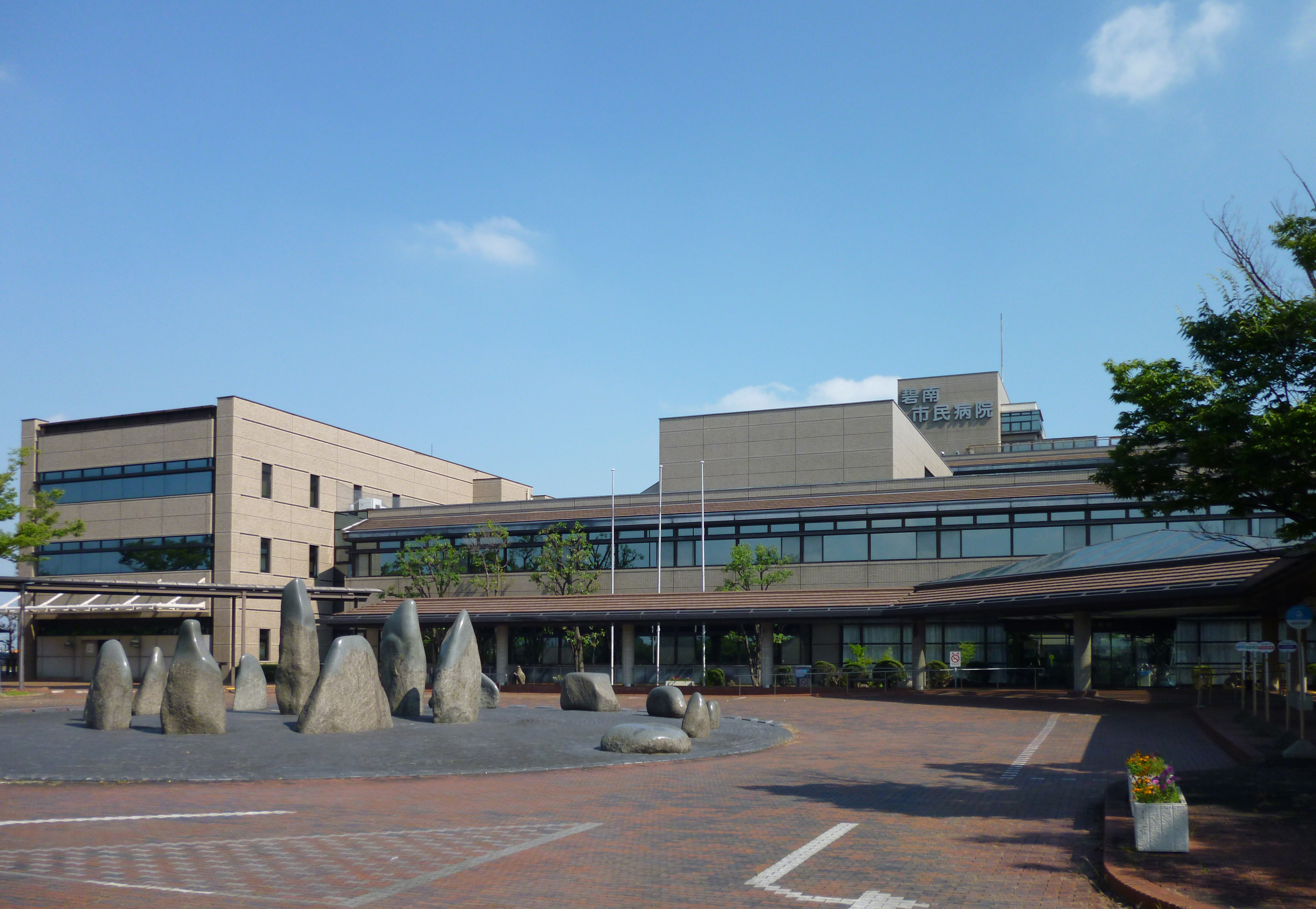 Hekinan Municipal Hospital in Hekinan, Aichi, Japan.